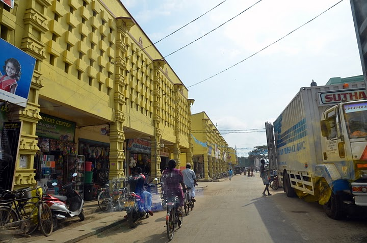 View of Jaffna town